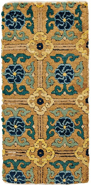 16th century Ming imperial carpet fragment